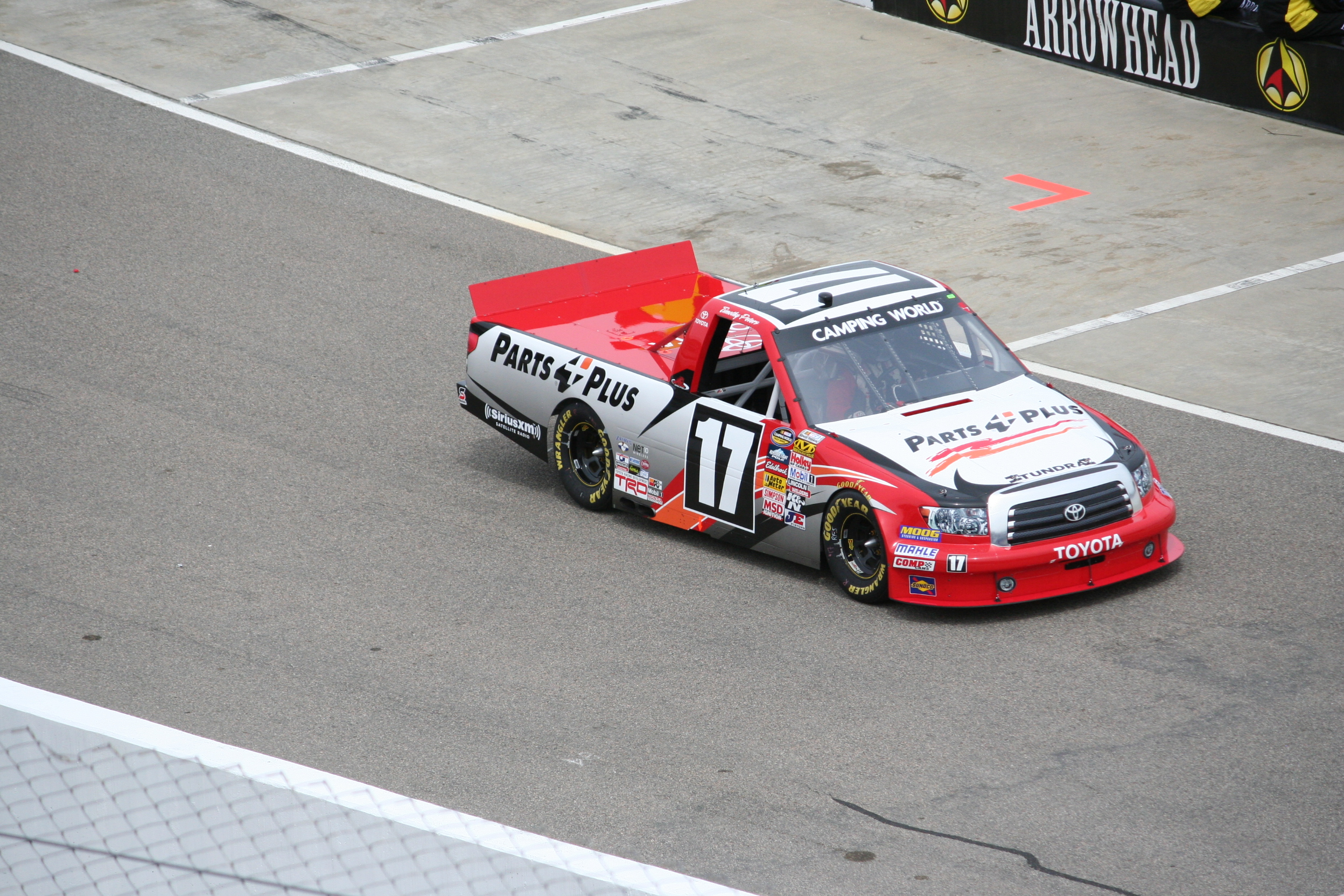 Timothy Peters drives the No. 17 Parts Plus Toyota on pit road during the North Carolina Education Lottery 200 at Rockingham Speedway, Rockingham, NC, April 14, 2013